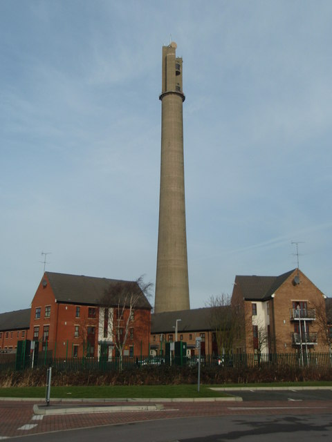 Lift Tower Northampton Built to test lifts by the Express Lift Company, decommissioned when Otis lifts took over. Sold to a house building company who built so close as to prevent any demolition. Concrete cancer was discovered on a routine inspection and it now needs a protective covering. It is alleged that the tower may be used again for its original purpose. An unmissable landmark that regularly features as the Northampton lighthouse in the letters to Terry Wogan on Radio 2. There appears to be communication equipment on top of the building and you certainly get a strong phone signal close by.